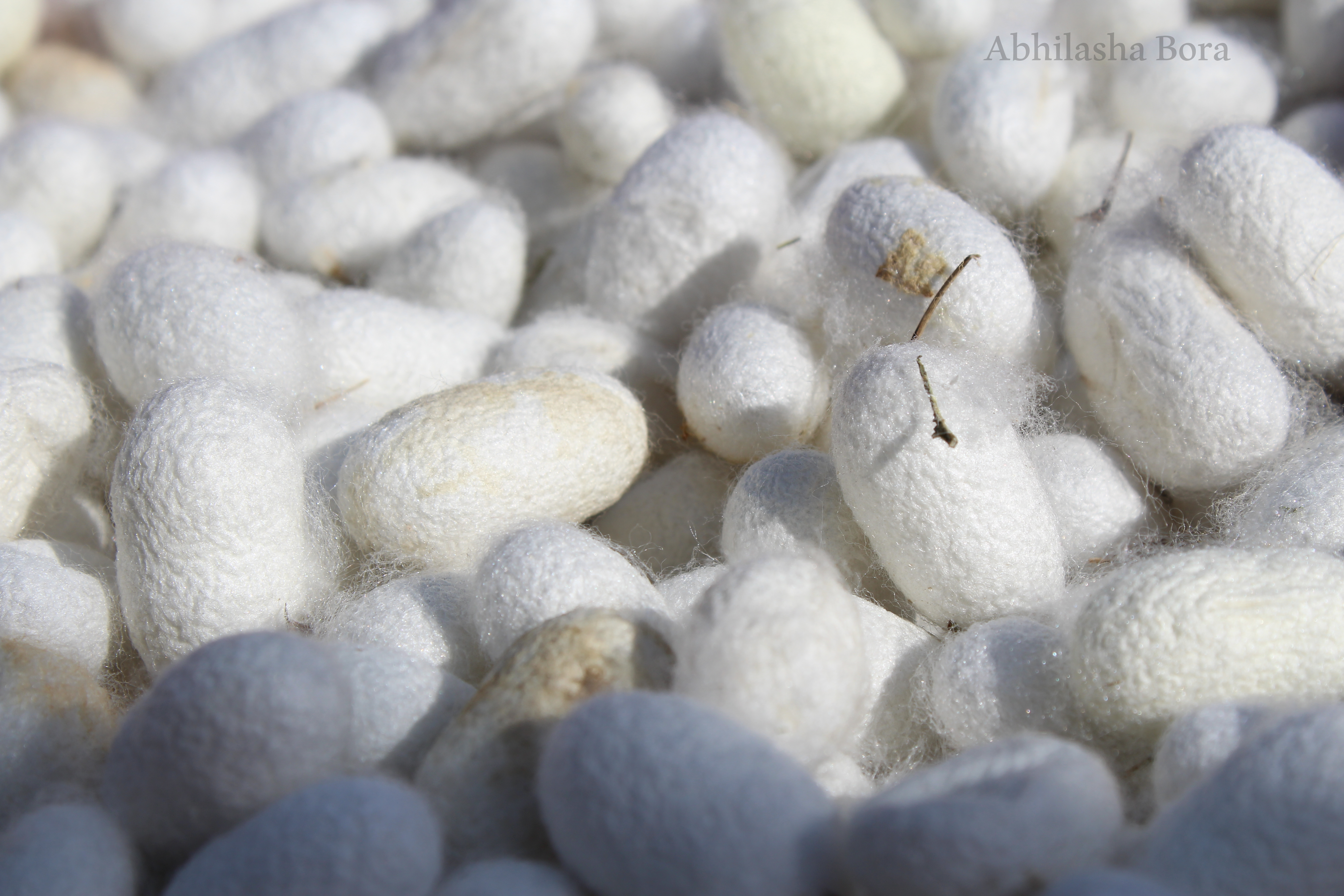 Cocoons of Silkworm